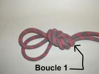 Double figure-eight loop ("rabbit ears knot") - Image 4